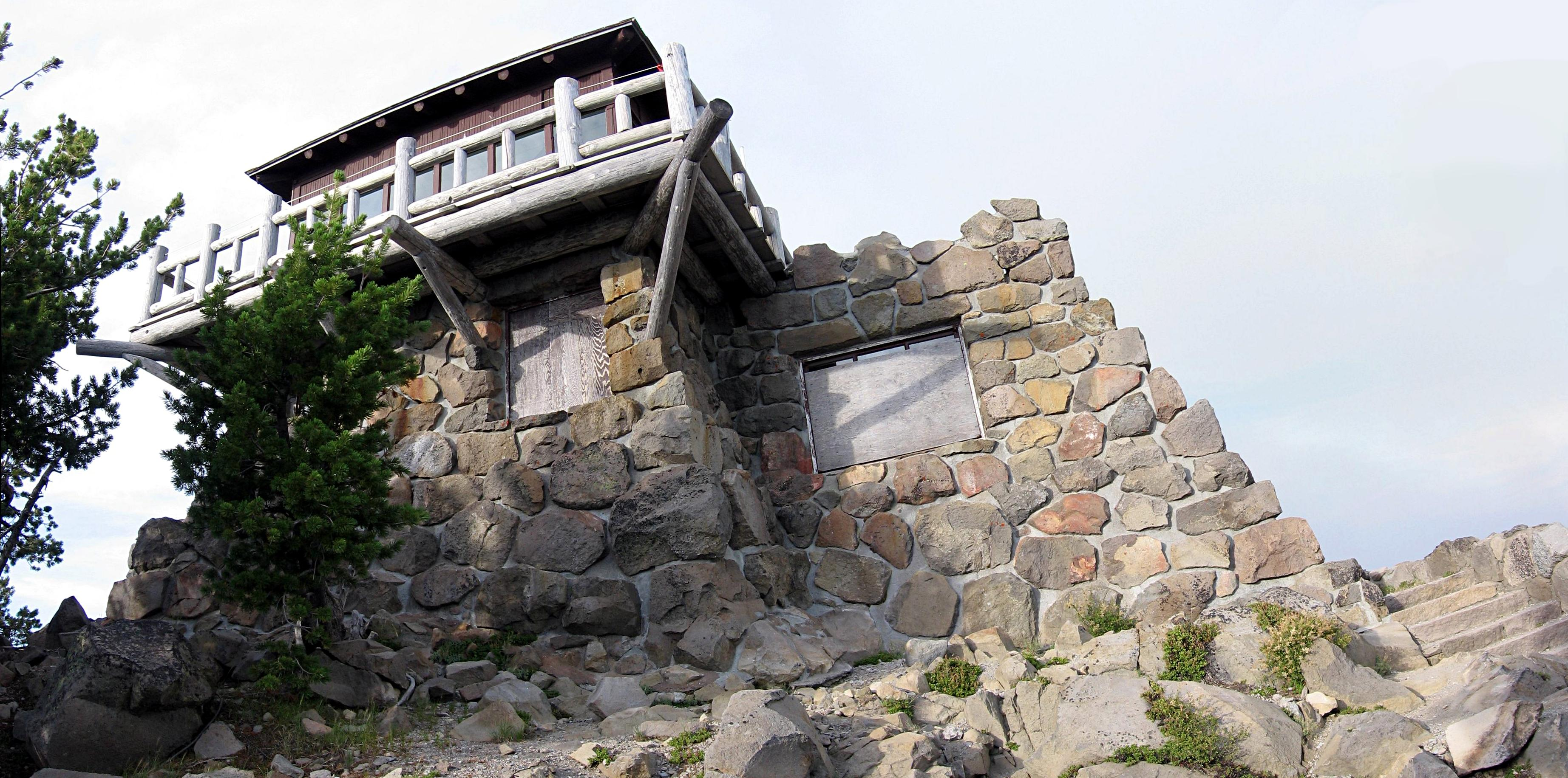 Watchman Peak fire lookout in Crater Lake National Park